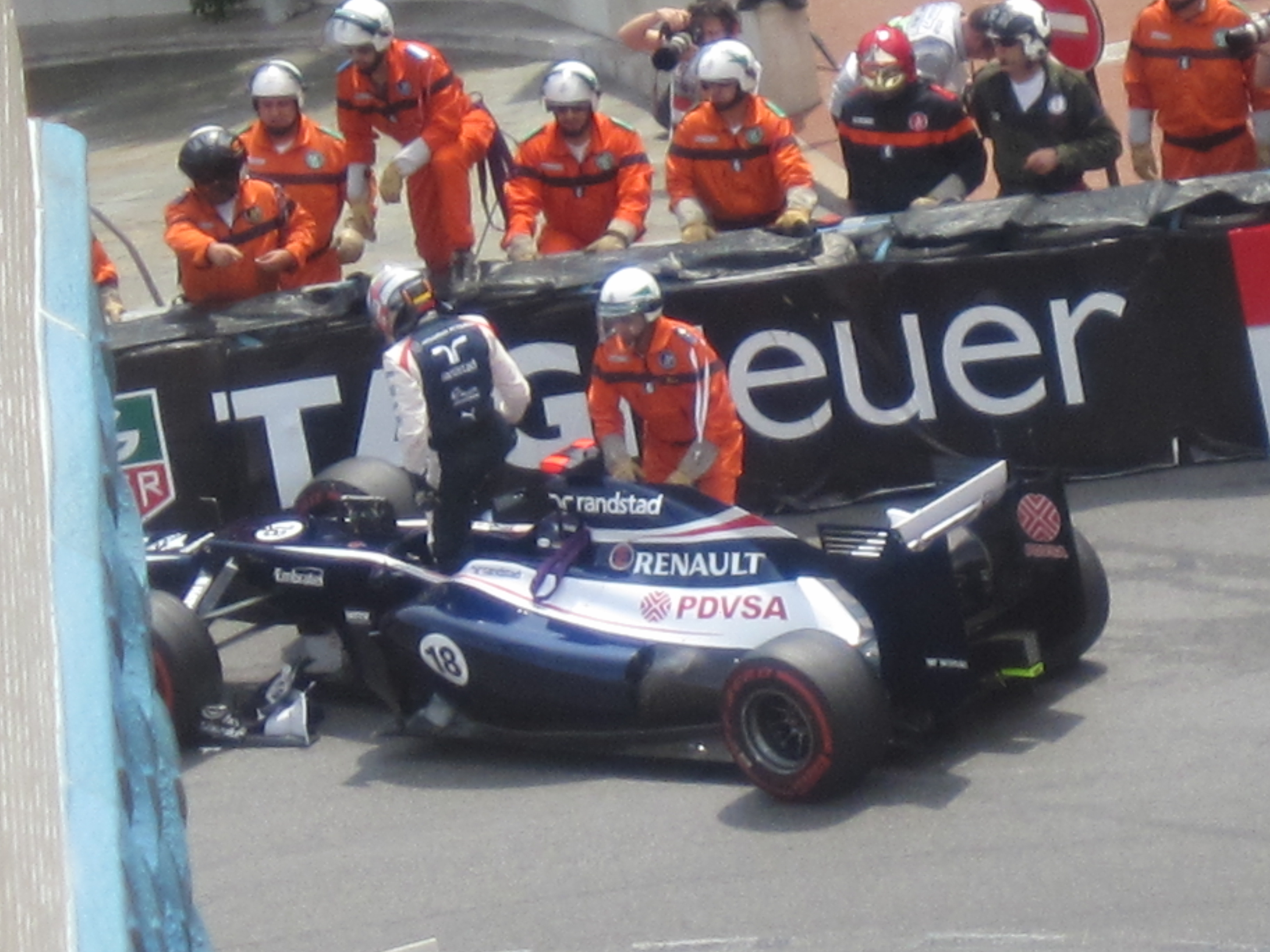 Pastor Maldonado Monaco 2012 Crash